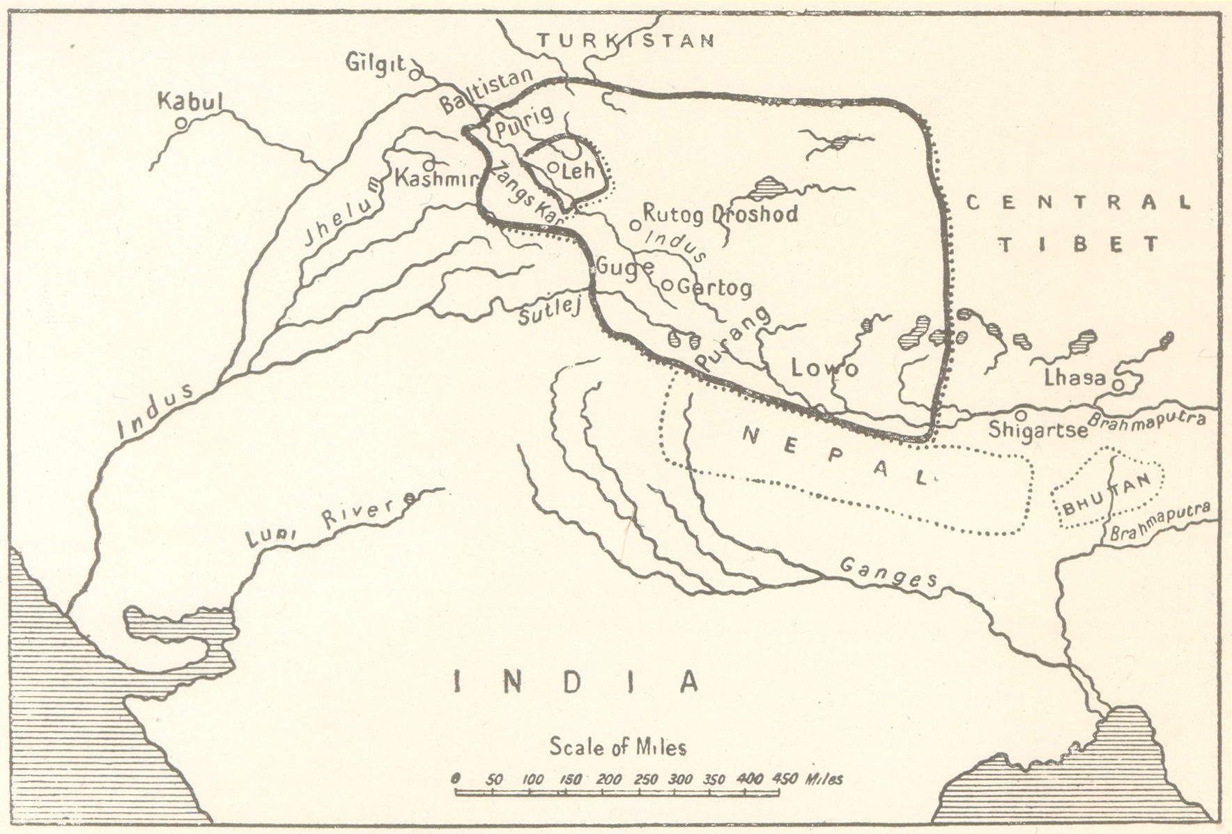 The empire of King Tsewang Rnam Rgyal 1., and that of King Jamyang Rnam Rgyal., about 1560 and 1600 A.D. as depicted in A History of Western Tibet by A.H. Francke, 1907 republished as A History of Ladakh with Critical Introduction and Annotations by S.S. Gergan and F.M. Hassnain, depicting not just the Aksai Chin but also inter alia Rudokh and Guge and the area to the west of the ridges which separate the plateau of Tibet from the highlands of Kashmir wherein are the Aling Kangri and Mavang Kangri peaks, to the south of the Pulu Pass at the point where the Kuen Lun Range in Kashmir which runs southeast to northwest and the Altyn Tagh range in Tibet running southwest to northeast, converge forming a "V" shape and culminating near the vicinity of Mayum La, as integral part of Ladakh.